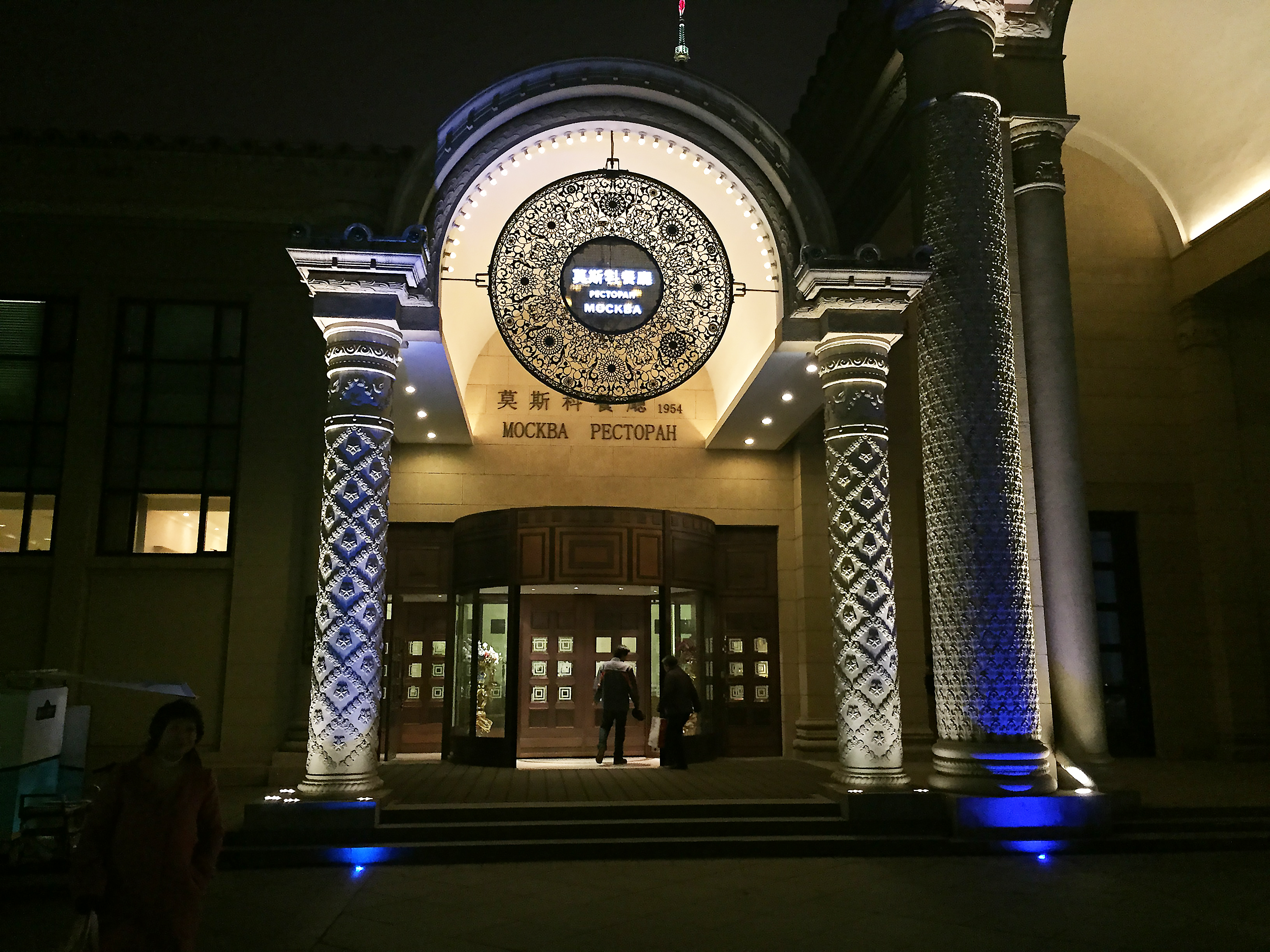 Just came across this nostalgic restaurant...